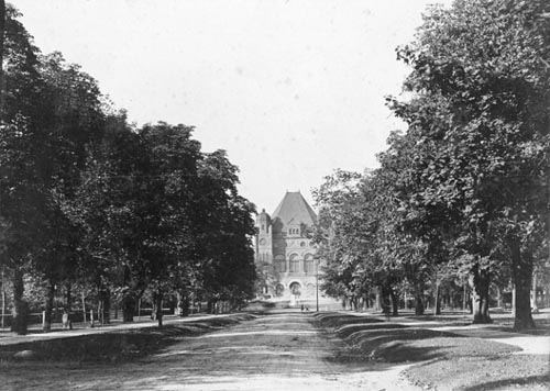 University Avenue, with Queen's Park and Ontario Legislative Building in the distance (Toronto, Canada)